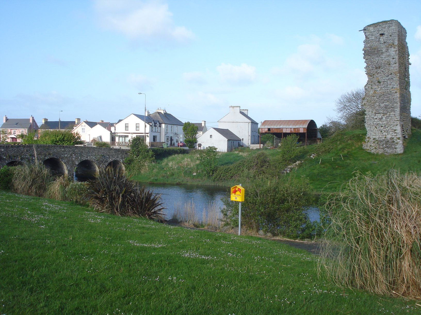 The Doonbeg River with the arched bridge. On the right Doonbeg Castle.